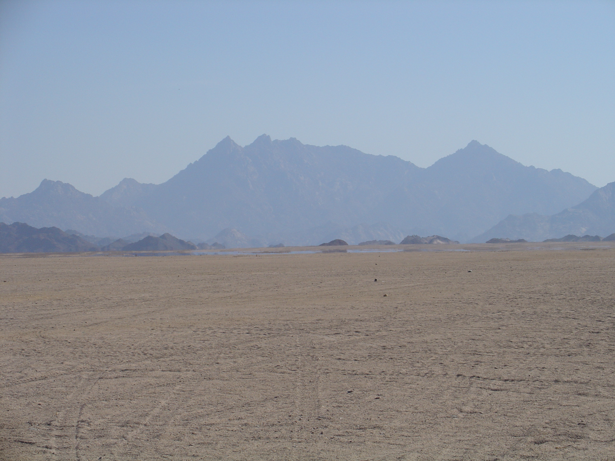 No, that's not water.... Shot by Espen Birkelund